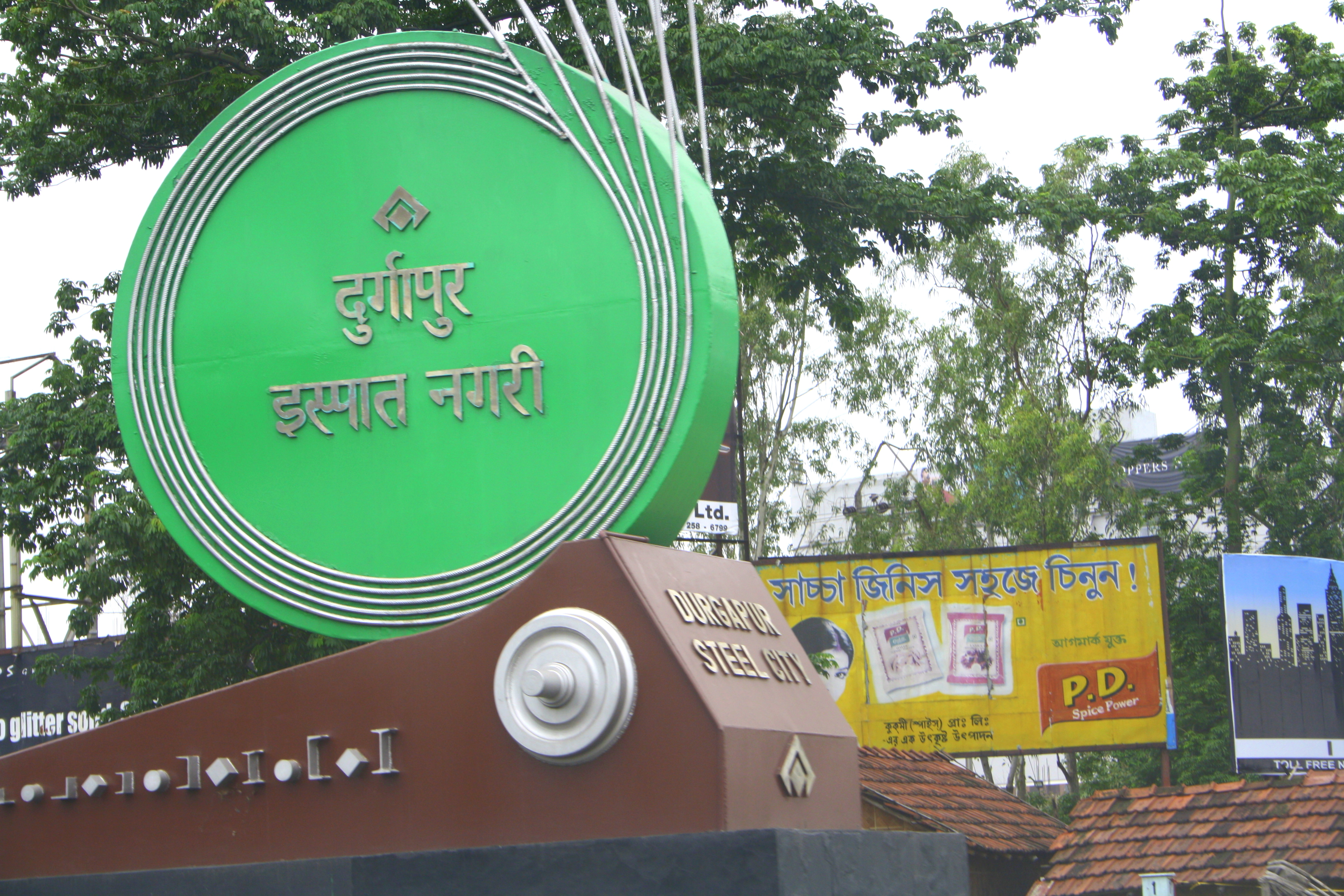 This structure is on the National Highway-2 or NH-2 at the entrance to the Durgapur City.